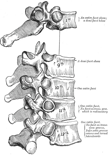 Peculiar thoracic vertebrÃ¦.